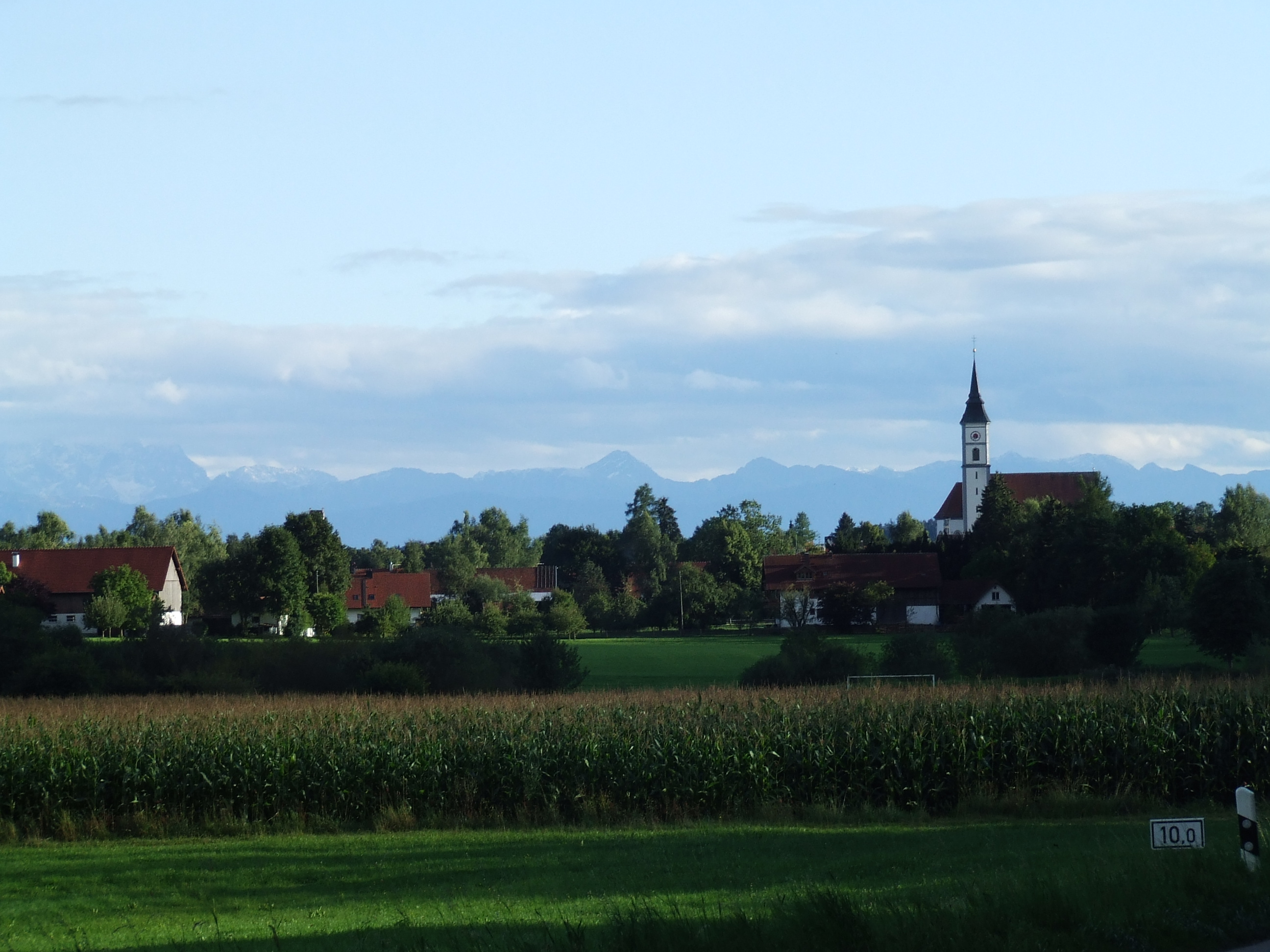 Thaining (Germany)